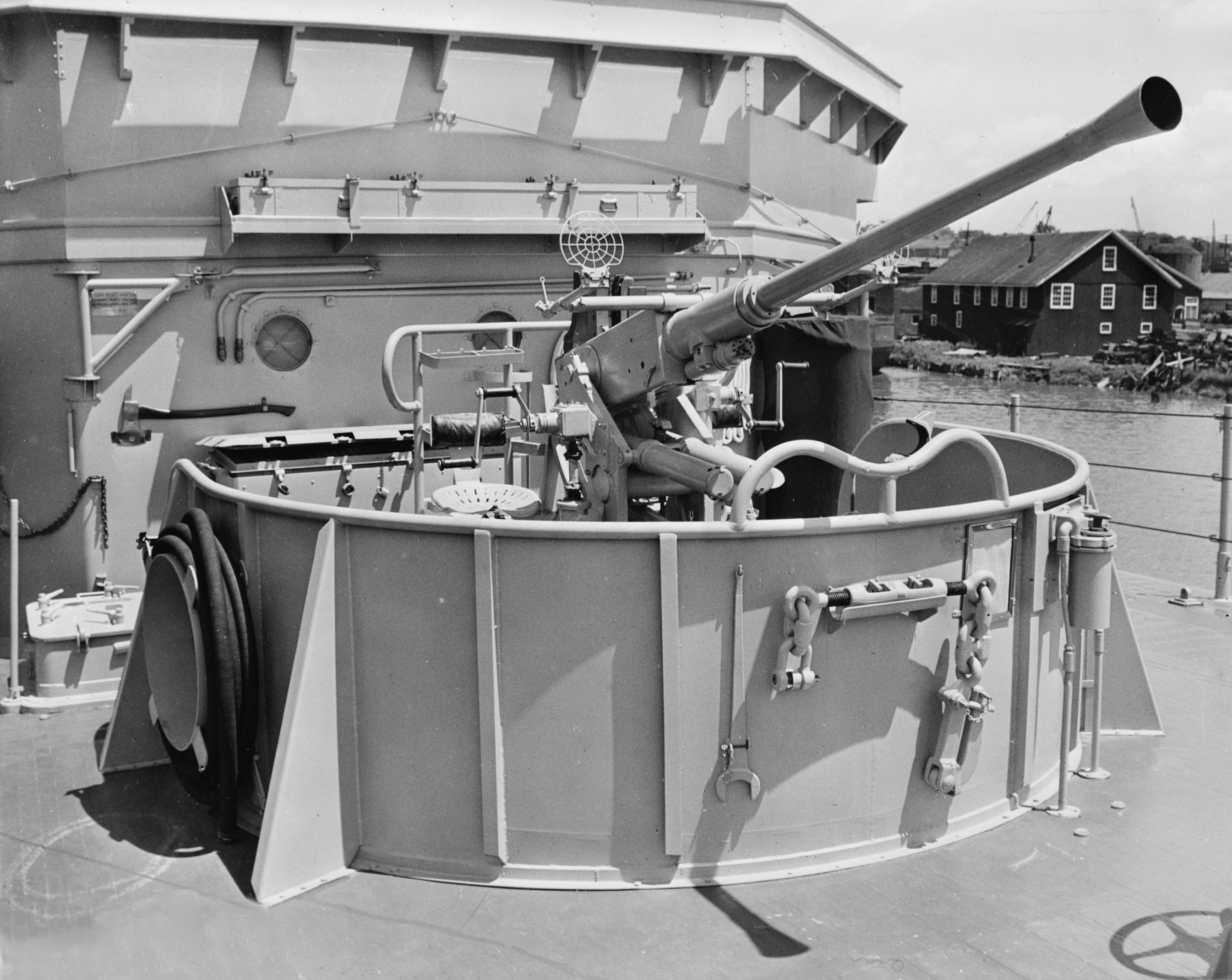 View of the 40 mm Bofors gun aboard the U.S. Navy minesweeper USS Valor (MSO-472), in June 1954.